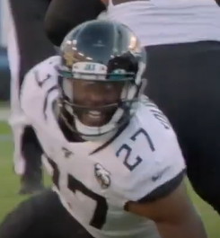 Leonard Fournette 2019. Image from video Harold Landry Takes Down Nick Foles | Slow-Mo Monday, ~ 00:03